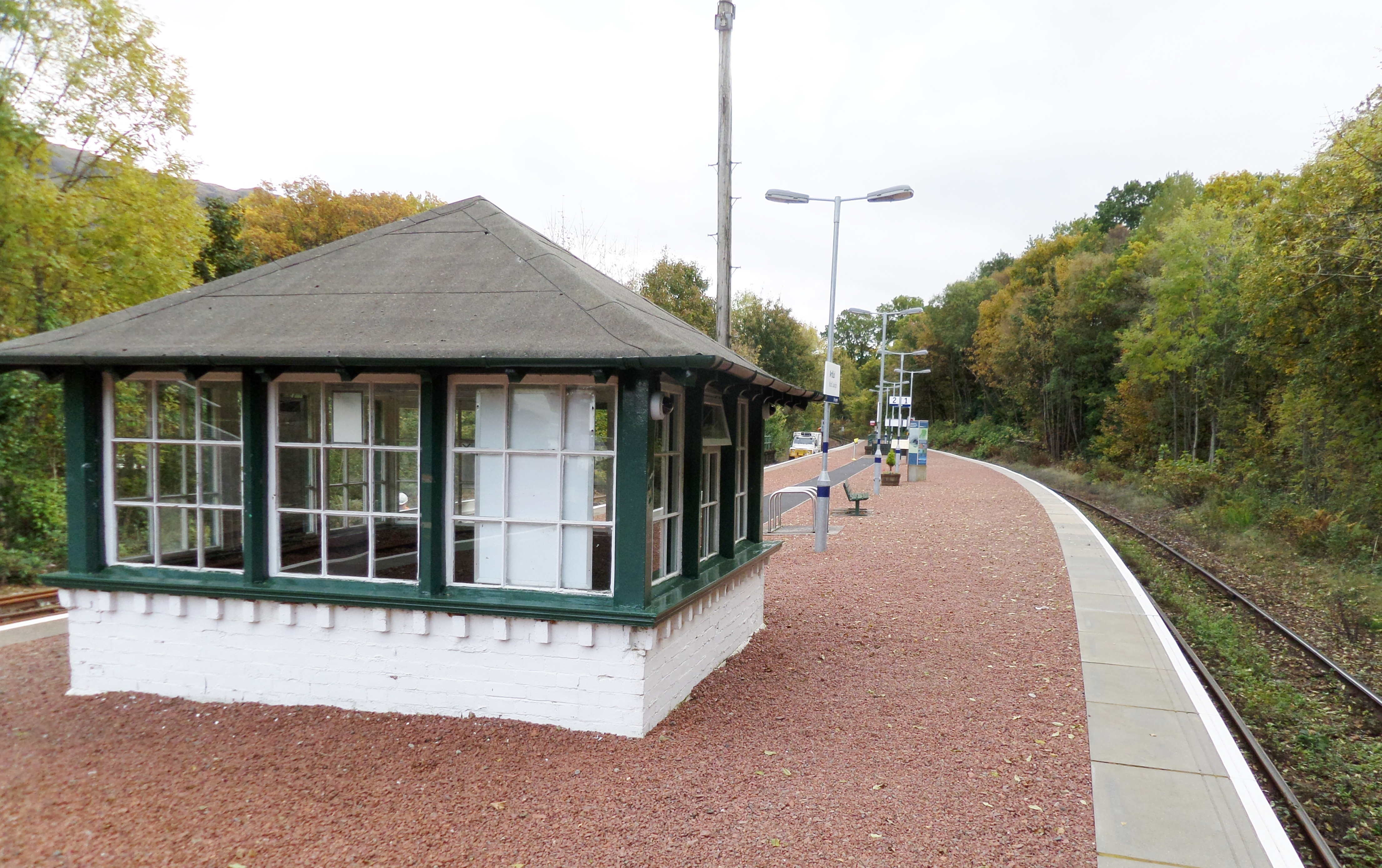 Ardlui railway station, shelter in old signal box, Loch Lomond and the Trossachs, Scotland.